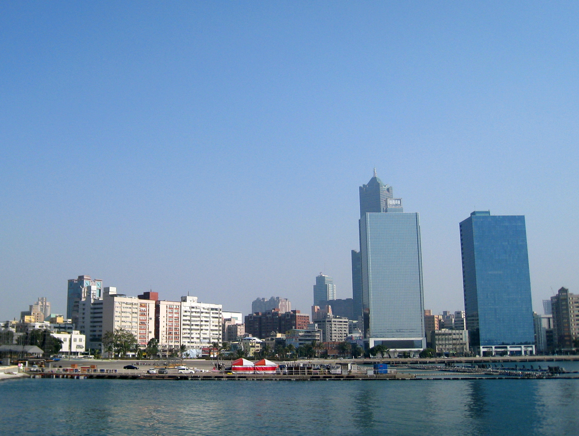 Seacoast of Lingyaliao